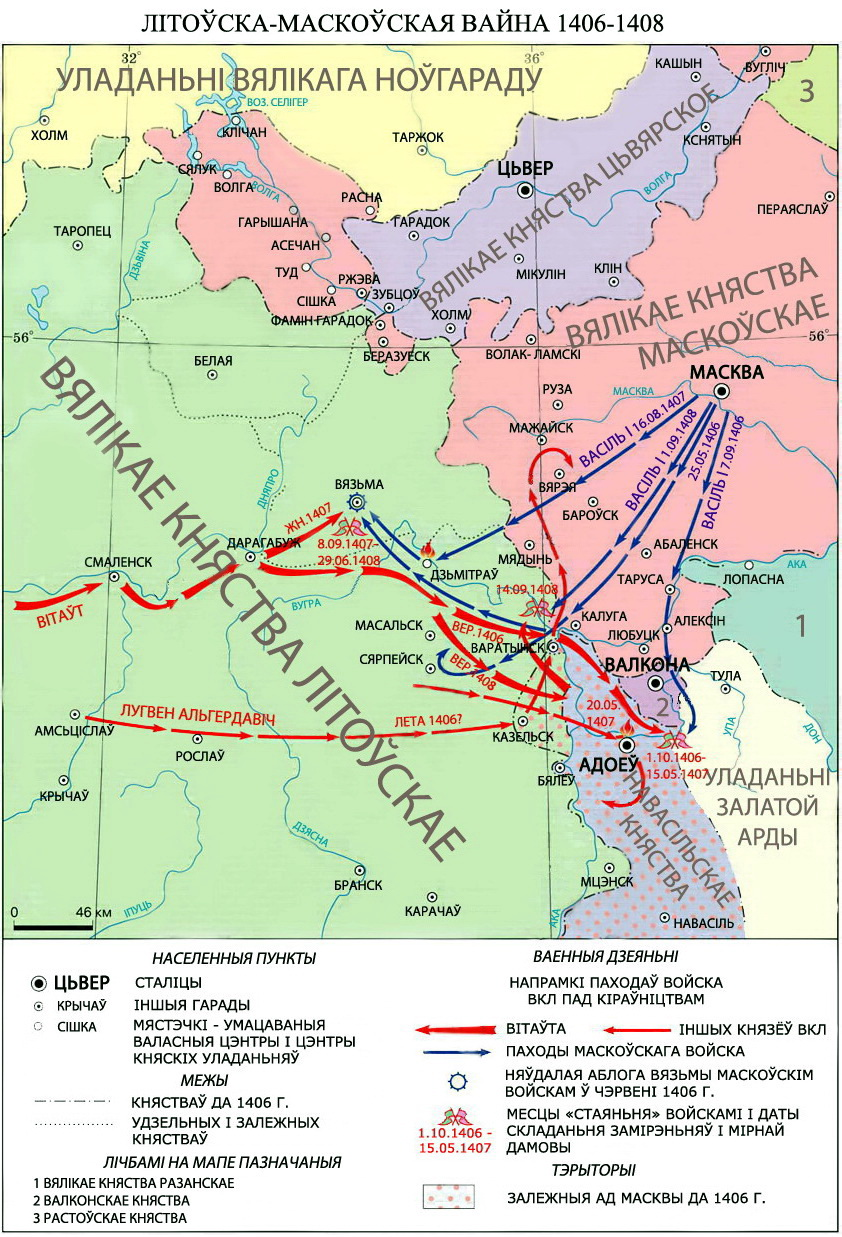 Lithuanian-Muscovite War of 1406-1408 years Беларуская (тарашкевіца): Літоўска-маскоўская вайна 1406-1408 гадоў